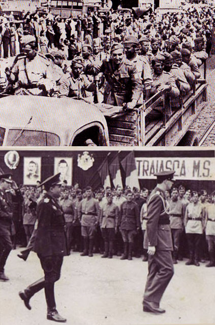 Entry of the Allied romanian division Tudor Vladimirescu (founded 1943) in Bucharest, sommer 1944 ; below : King Mihai I reviewing them with general Cambrea.